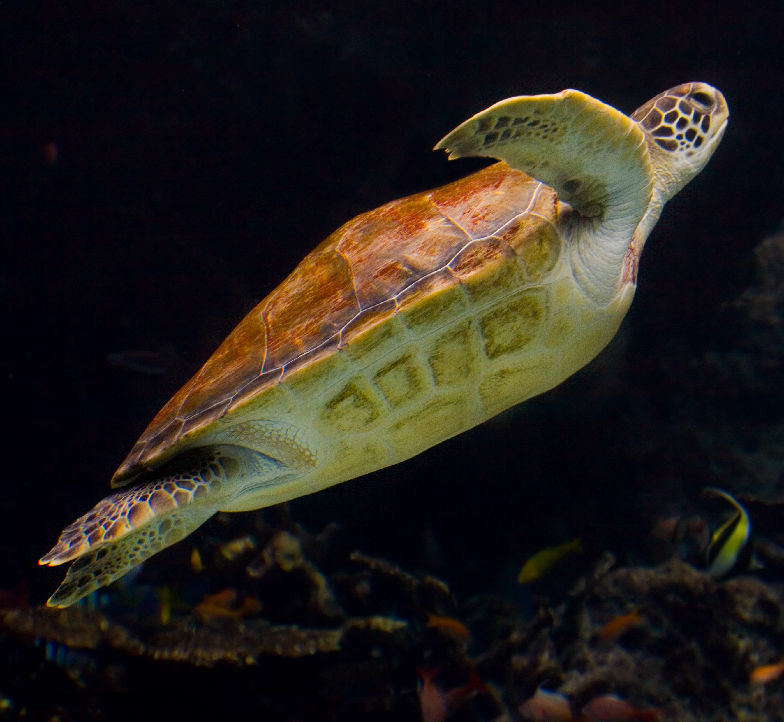 A Sea Turtle at Churaumi Aquarium in Okinawa